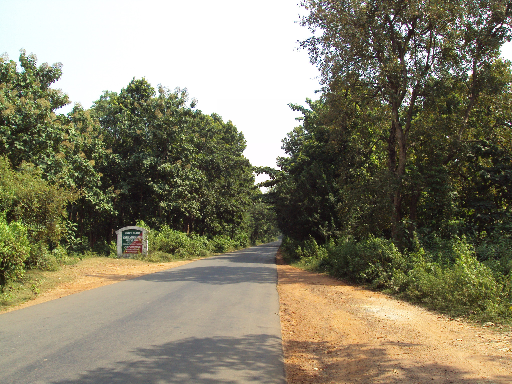 A road through Joypur Jungle, Bankura